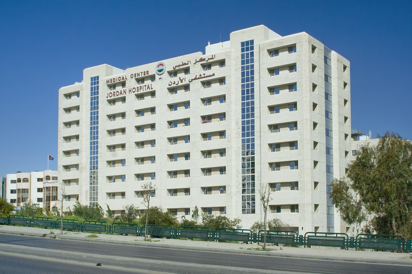 Jordan Hospital near Amman's 4th Circle